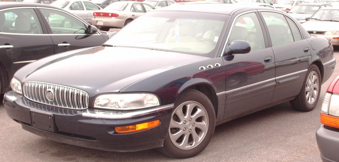 2001-2004 Buick Park Avenue photographed in Montreal, Quebec, Canada.